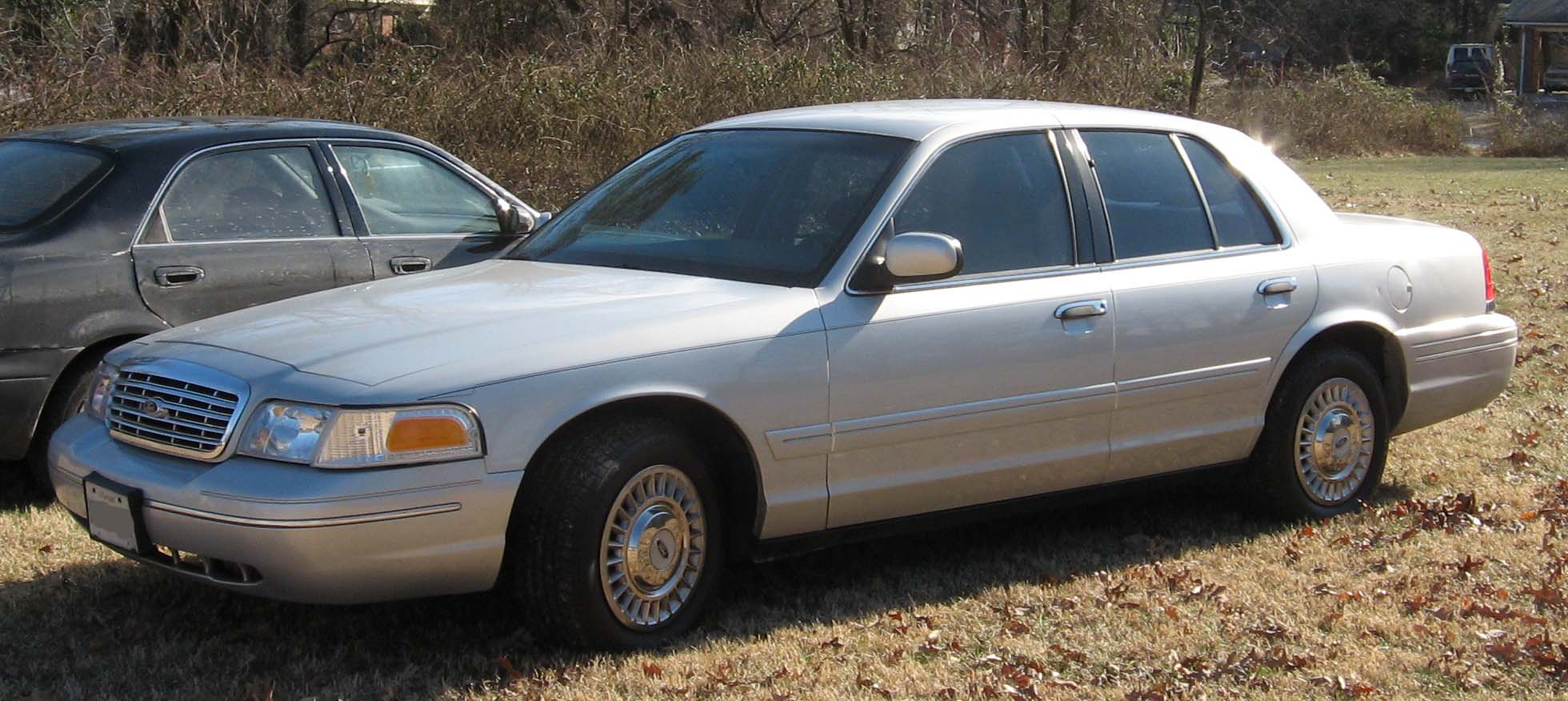 1998-2007 Ford Crown Victoria photographed in USA.